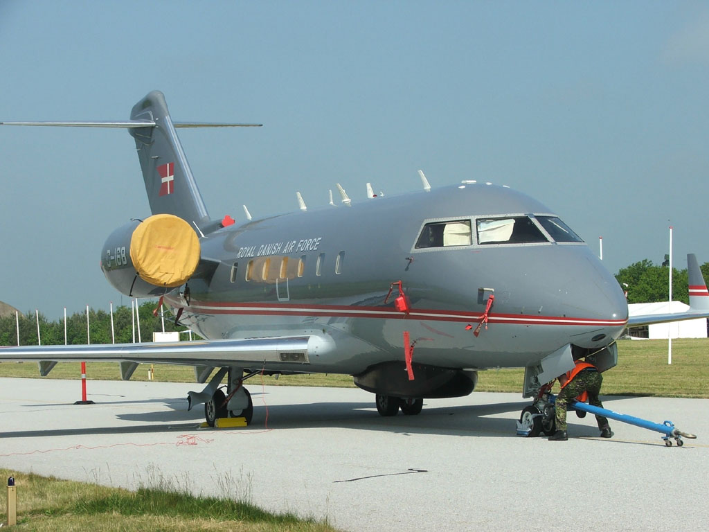 Danish air force CL-604 (reg. C-168) on Skrydstrup airbase